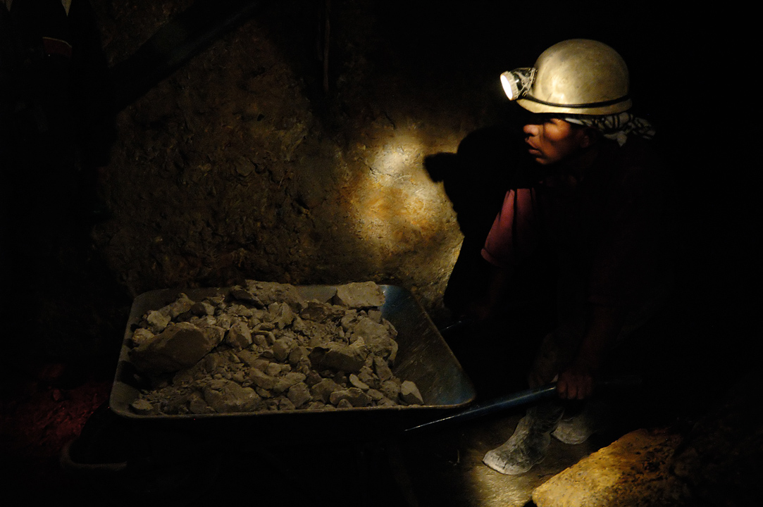 Miner in a mine of the "Cerro Rico" at Potosi, Bolivia.